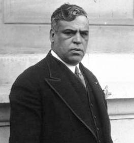 Mexican diplomat and politician Francisco Castillo Nájera (1886-1954) as Vice-President of the League of Nations General Assembly in 1933.